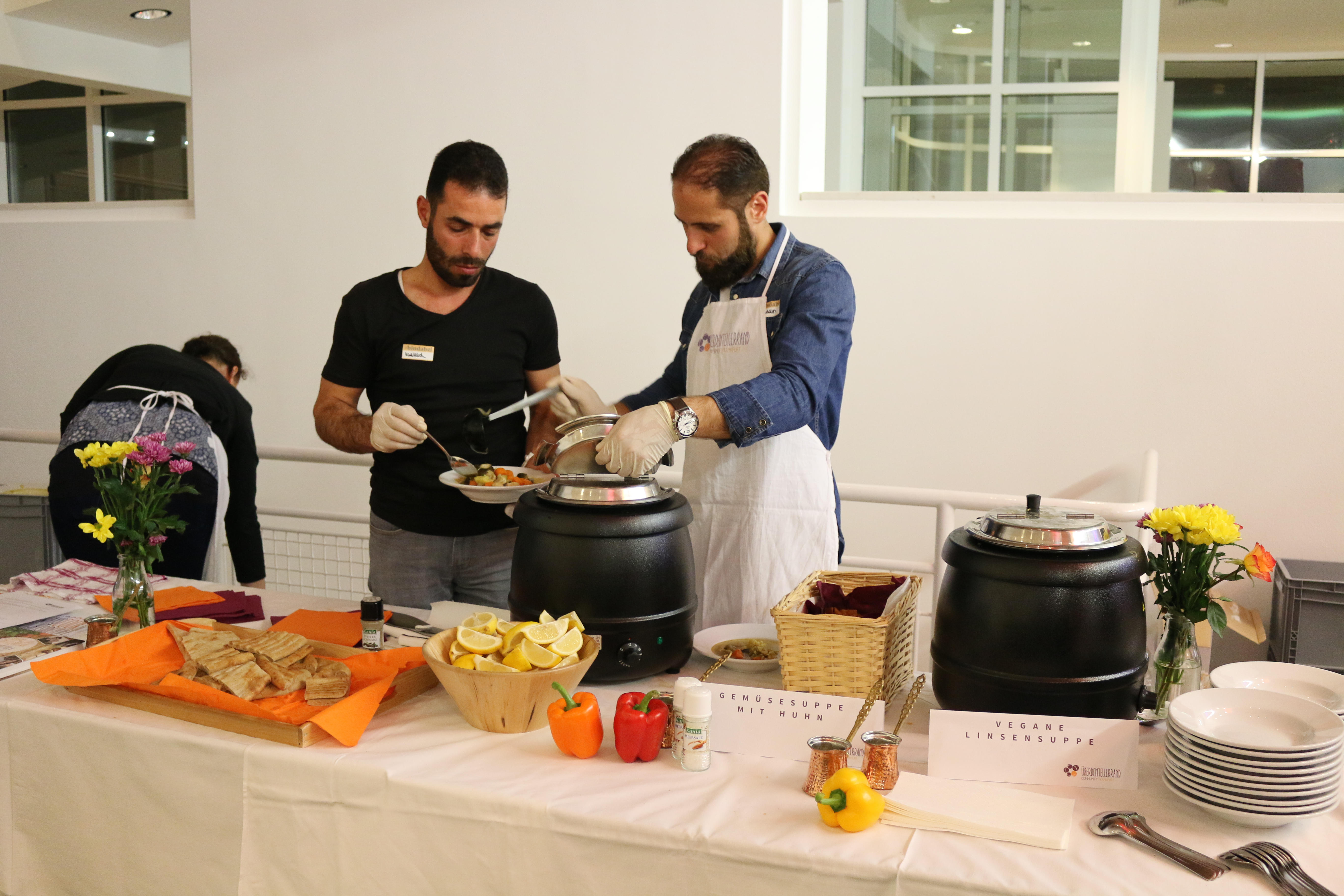 Über den Tellerrand Community Frankfurt am Main serving food at Museum Angewandte Kunst.